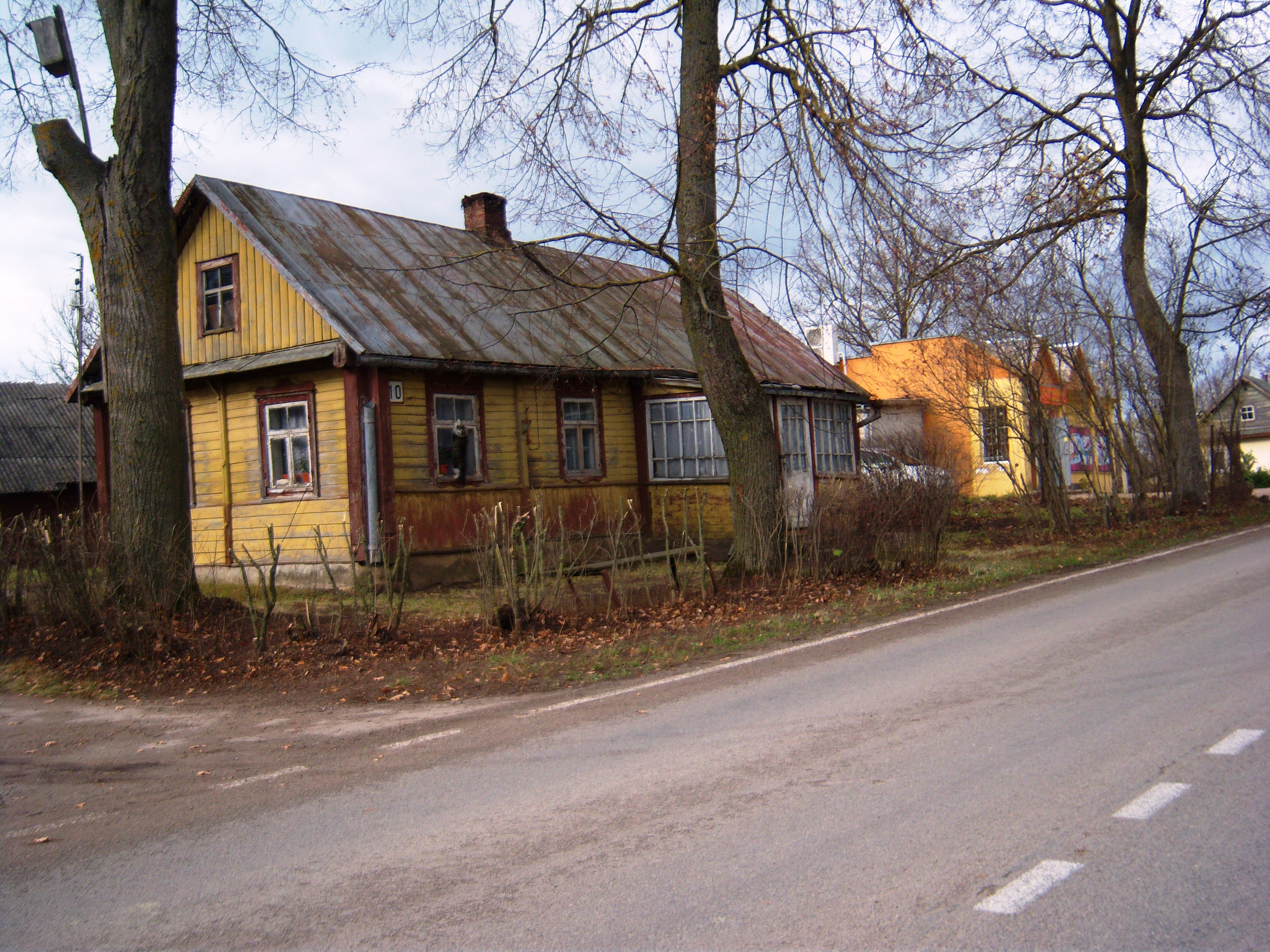 Antašava, Kupiškis District, Lithuania